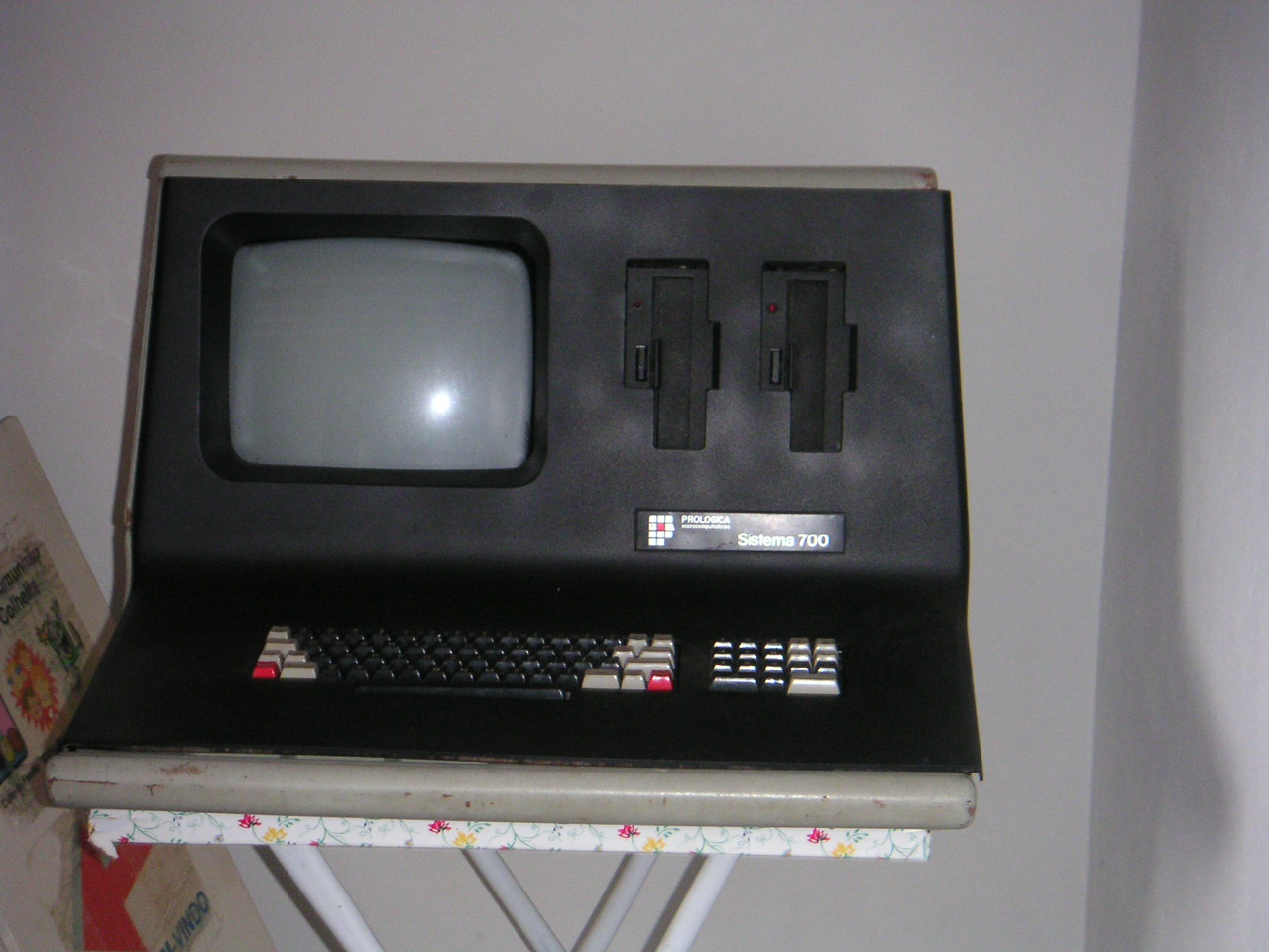 Brazilian Z80 based computer from the 1980s.